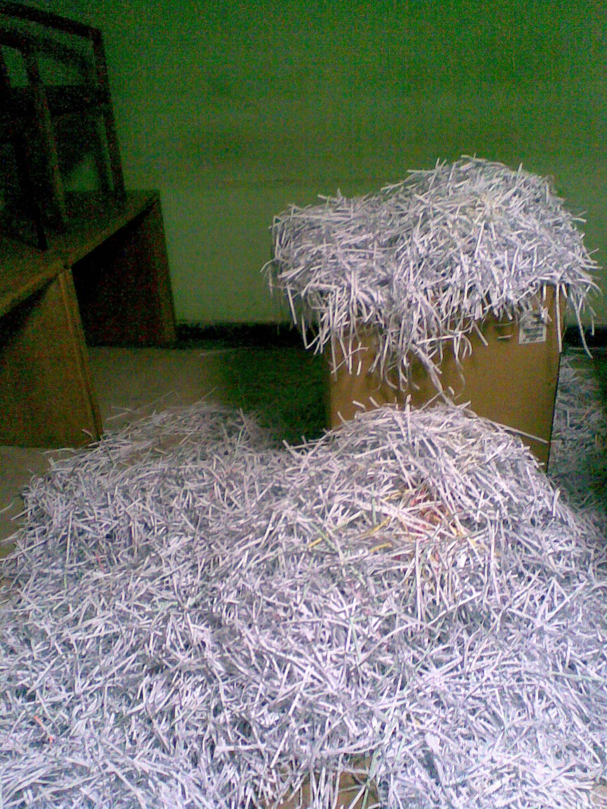 Shreaded paper found in Egyptian State Security HQ in Cairo.